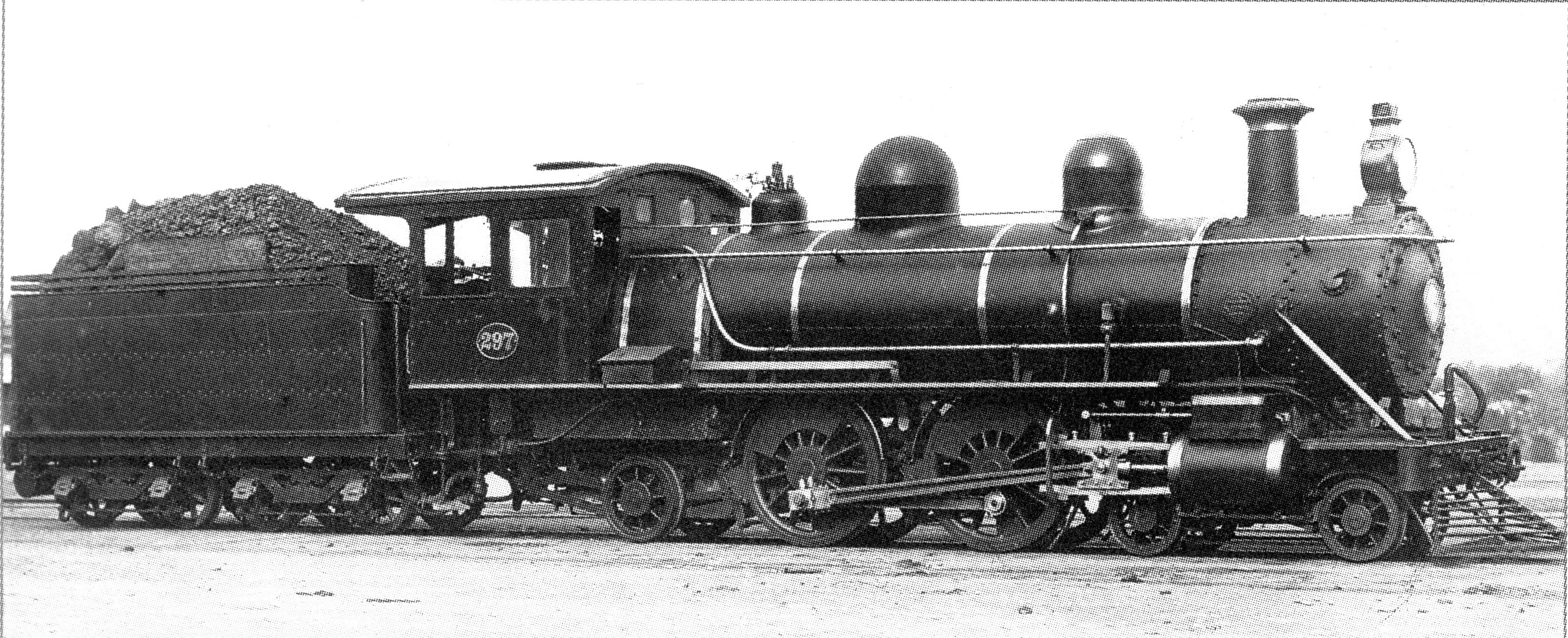 Cape Government Railways 4th Class 4-4-2 no. 297